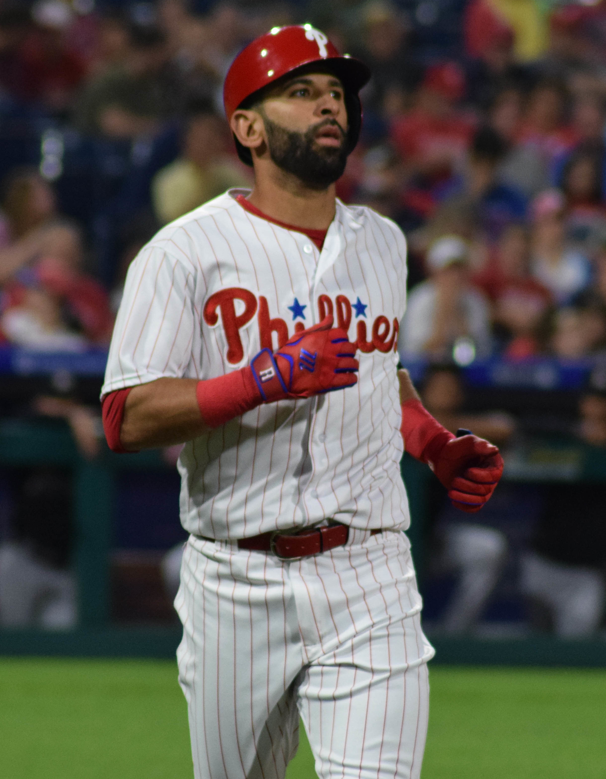 Philadelphia Phillies Outfielder Jose Bautista